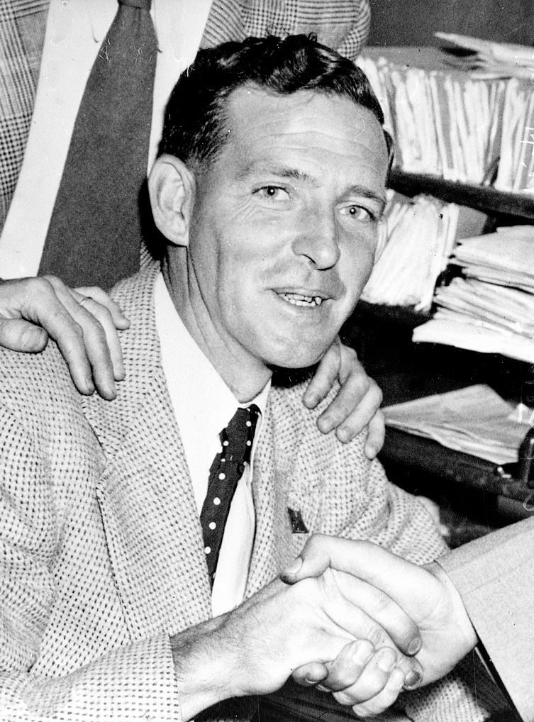 Victorian cricketer Jack Hill is congratulated by workmates on 8 March 1953 after selection in the Australian team to tour England. SMH SPORT Picture by STAFF